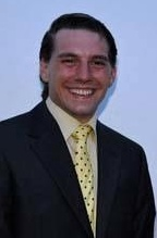 Princess Helena and Prince Nicholas with Mihai Anton at King Michael and Queen Anne's anniversary